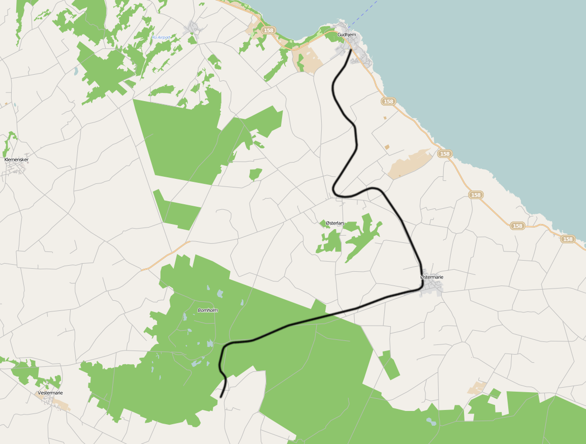 Railway line Almindingen - Gudhjem